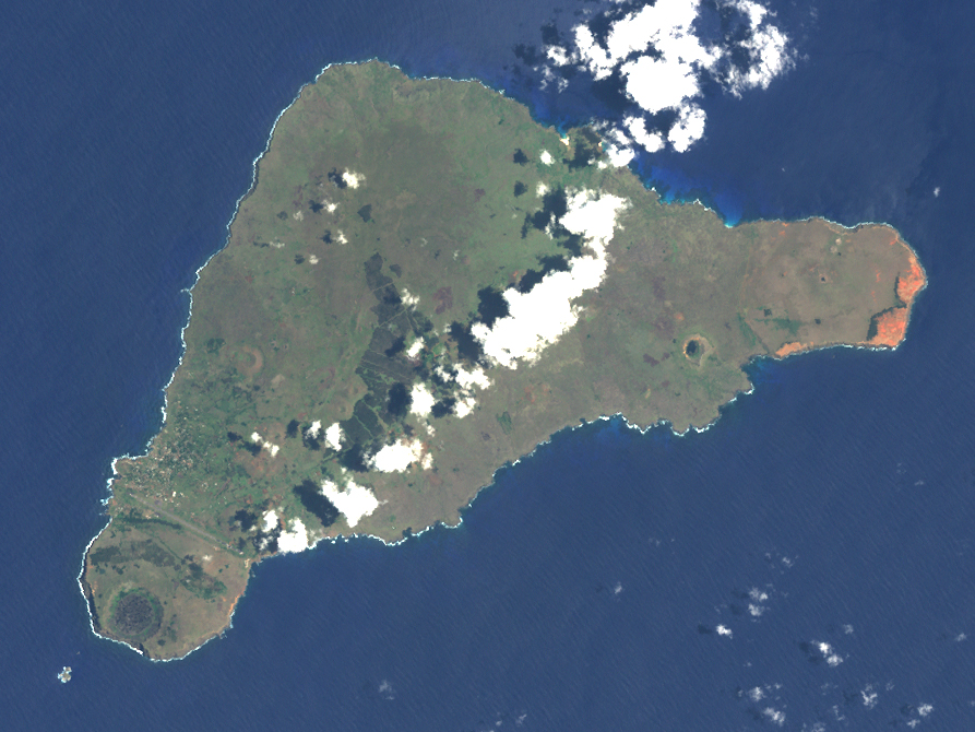 Landsat image of Easter Island.